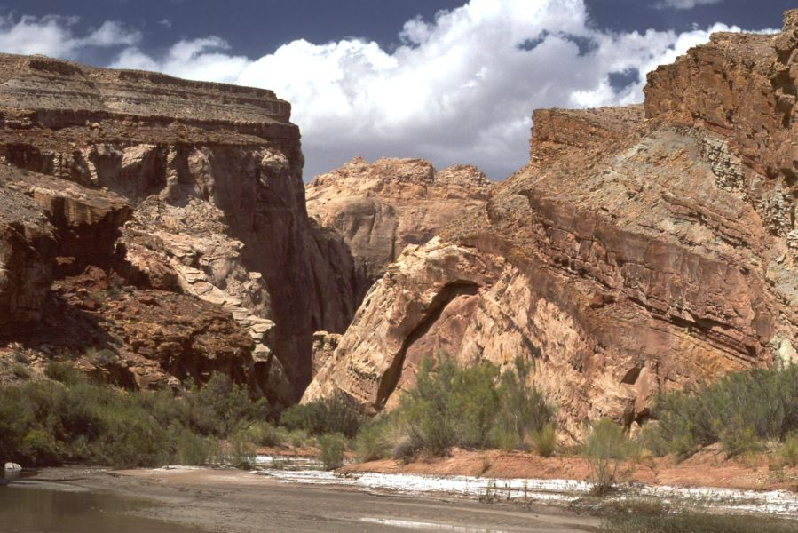 Muddy Creek Gorge, Utah, looking north to the point where it exits the San Rafael Reef.